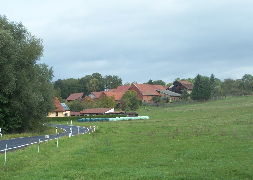 The village Bolleroda - a National-Park-Hainich community.